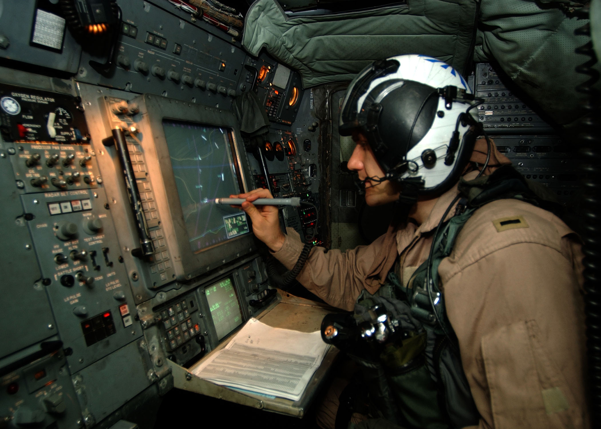 At sea with USS John F. Kennedy (CV 67) Apr. 24, 2002 -- Lt. j.g. Shane Tanner, a Naval Flight Officer assigned to the "Bluetails" of Carrier Airborne Early Warning Squadron One Two One (VAW-121), tracks aircraft at his station in an E-2C “Hawkeye” while on a combat mission over Afghanistan. Kennedy and her embarked Carrier Air Wing Seven (CVW-7) are conducting combat missions in support of Operation Enduring Freedom. U.S. Navy photo by Photographer’s Mate 1st Class Jim Hampshire. (RELEASED)